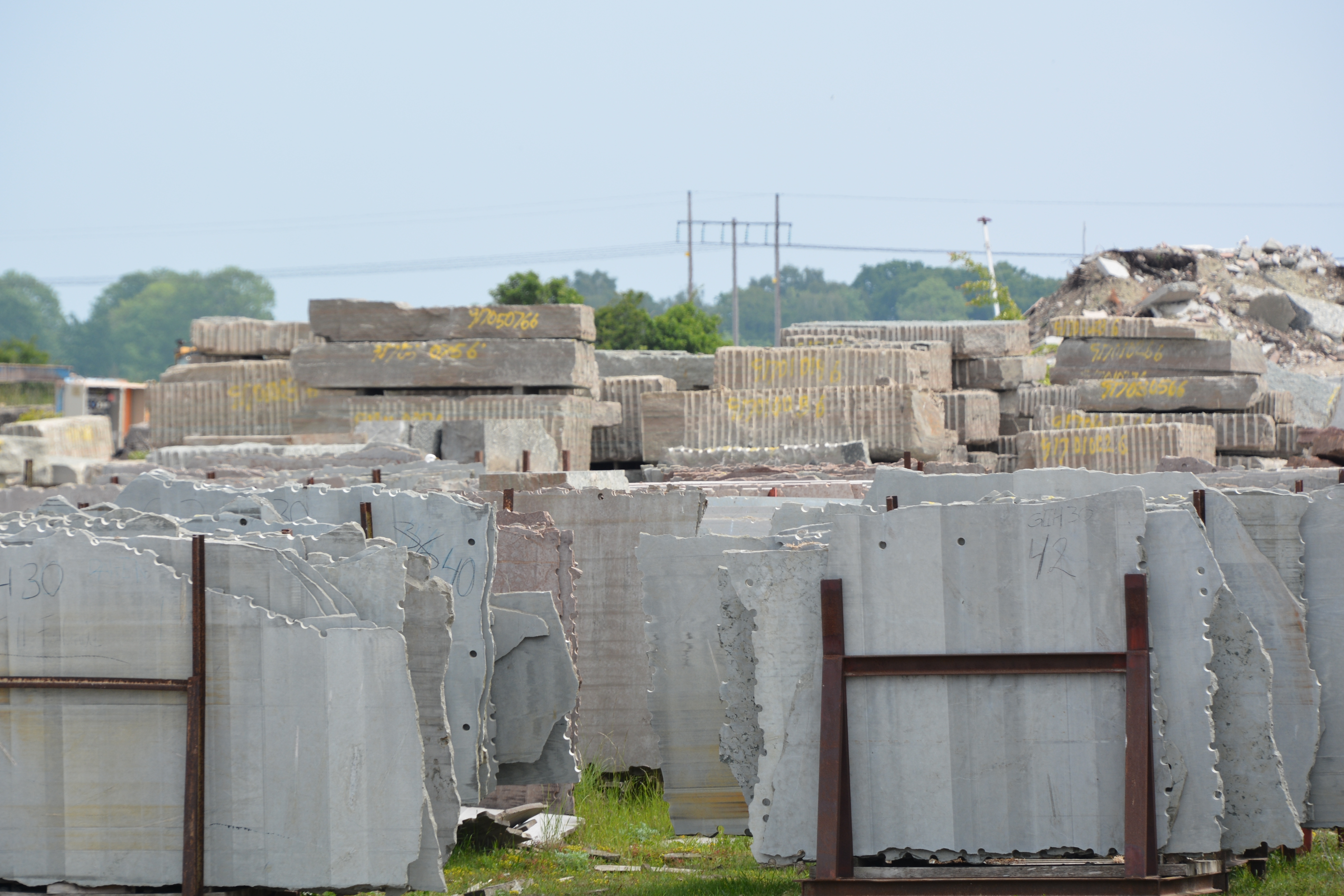 Sågad kalksten, Naturstenskompaniet i Stensvik